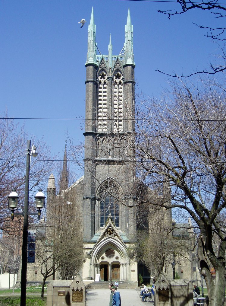 Metropolitan United Church, Toronto, Canada.